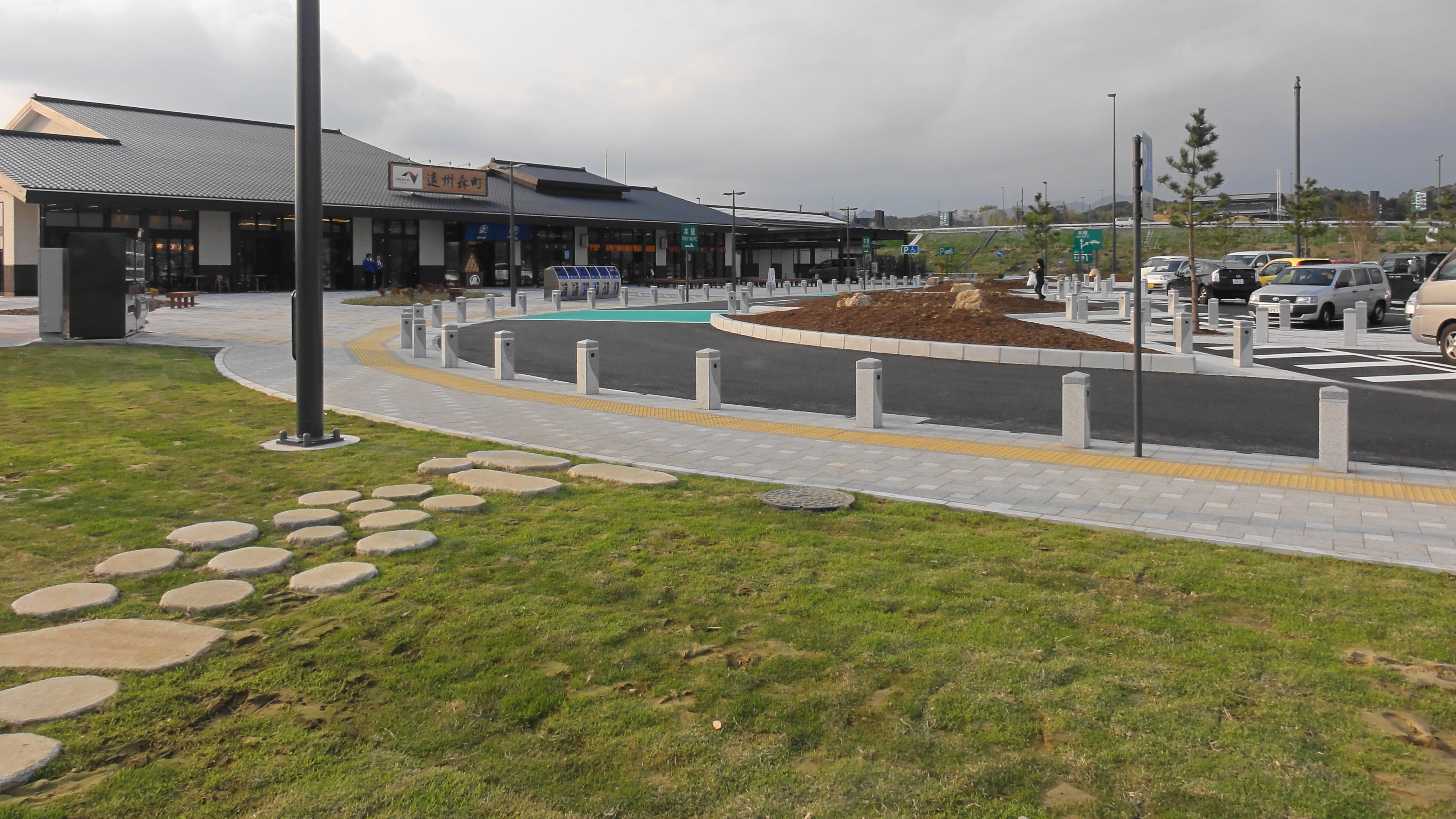 Enshu-Morimachi Parking Area on the Shin-Tomei Expressway outbound line, in Shizuoka Prefecture, Japan